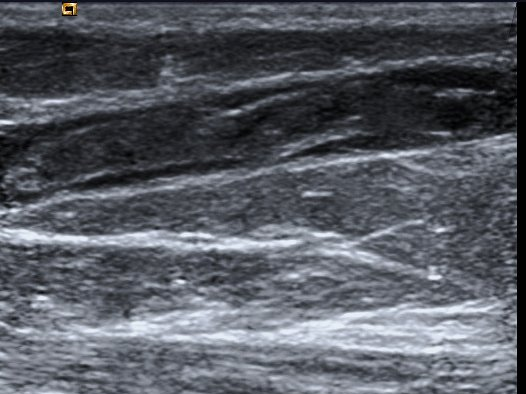 Thrombosis of GSV and tributaries